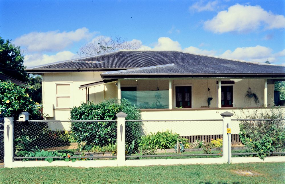 Residence, 25 Cedar St Yungaburra (1998)